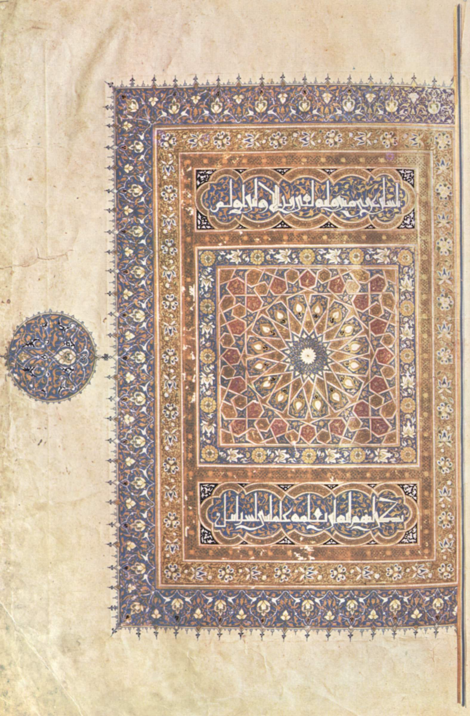 coming from Egypt